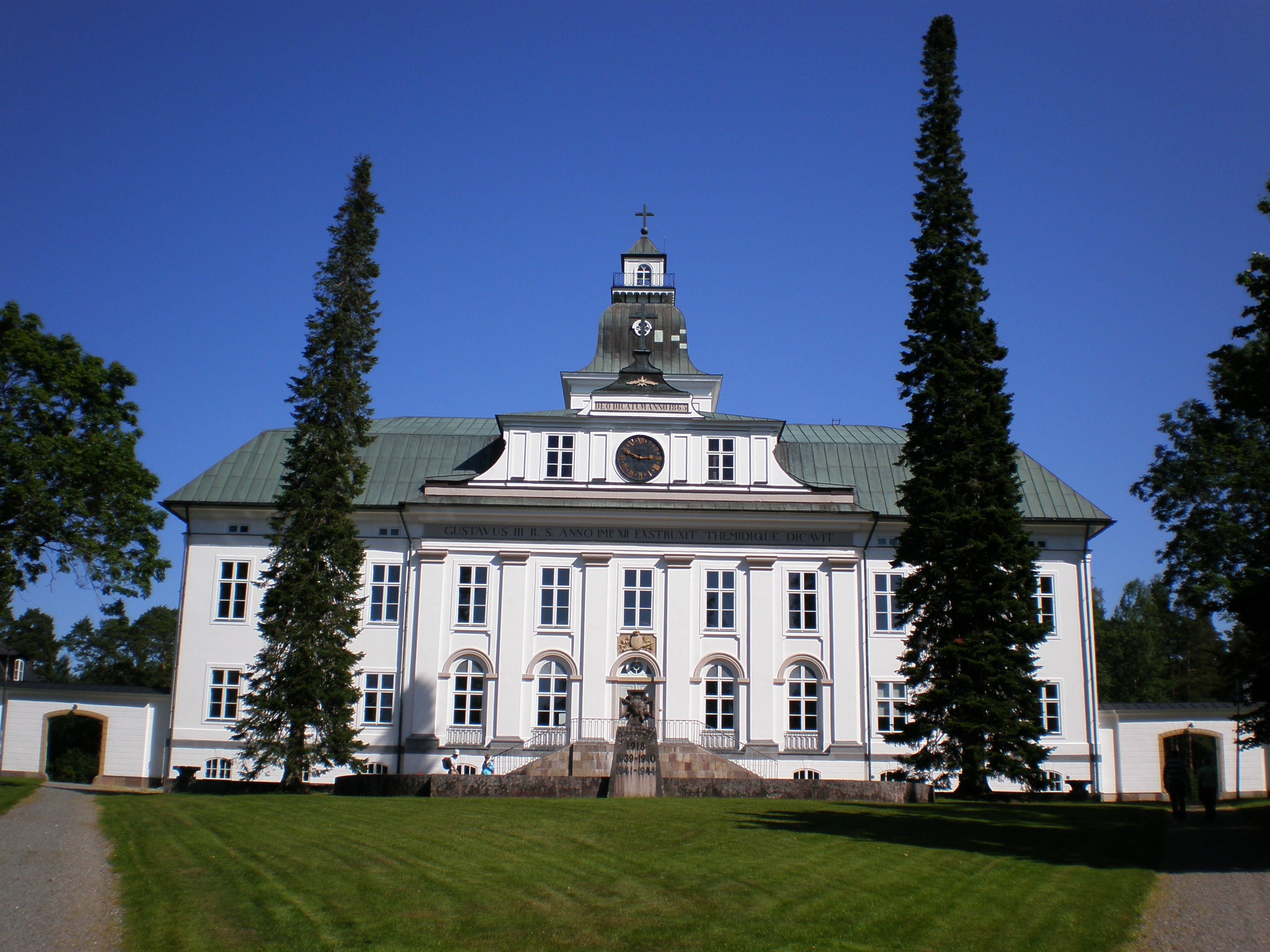 Korsholm Church in Vaasa, Finland